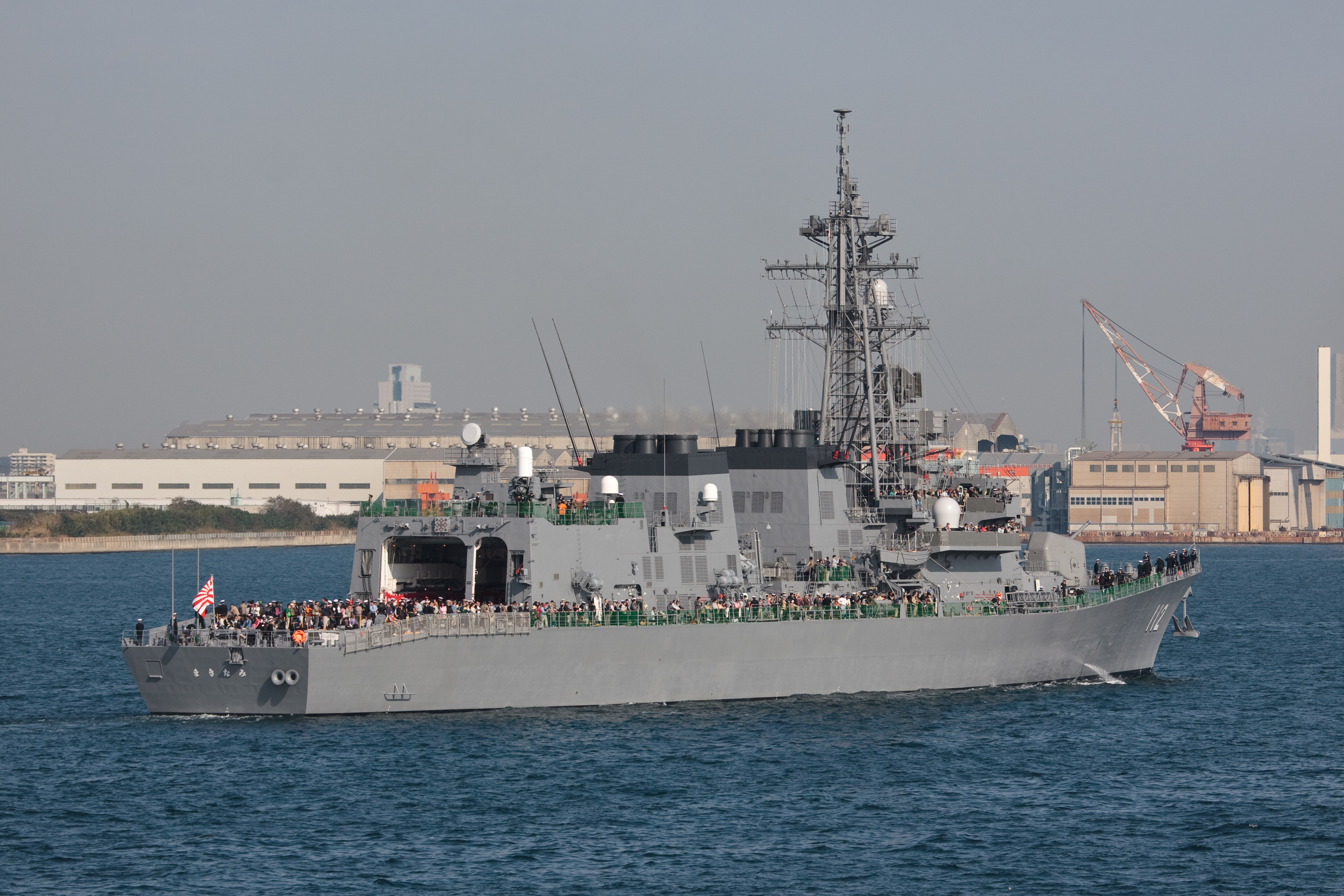 The Takanami-class destroyer Makinami (DD-112).